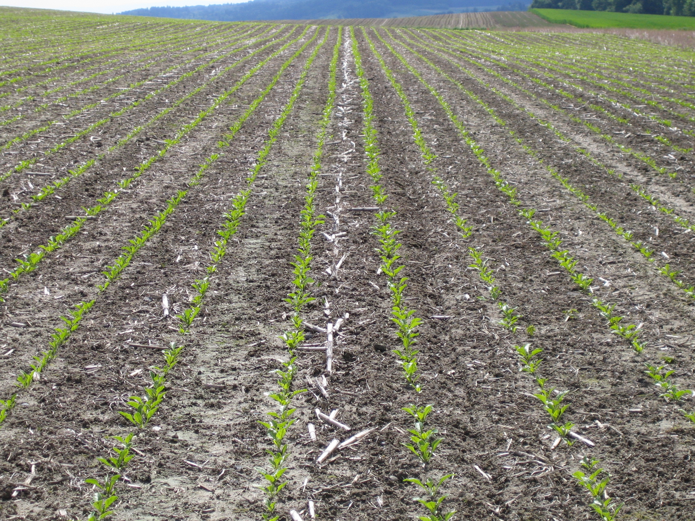 Mulch-till, sugar beet field, canton of Bern, Switzerland